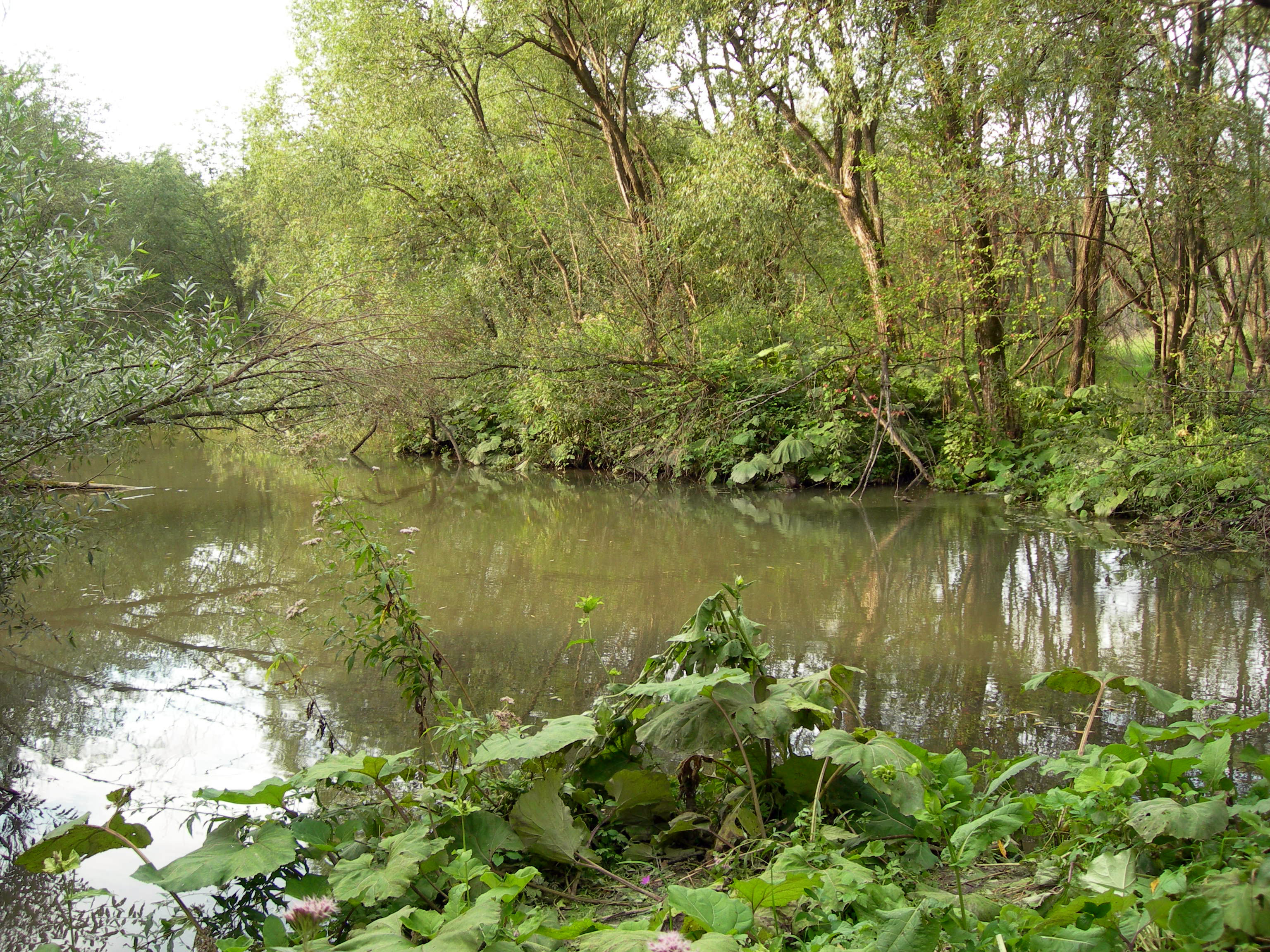 Nature reserve "Bobry w Uhercach"